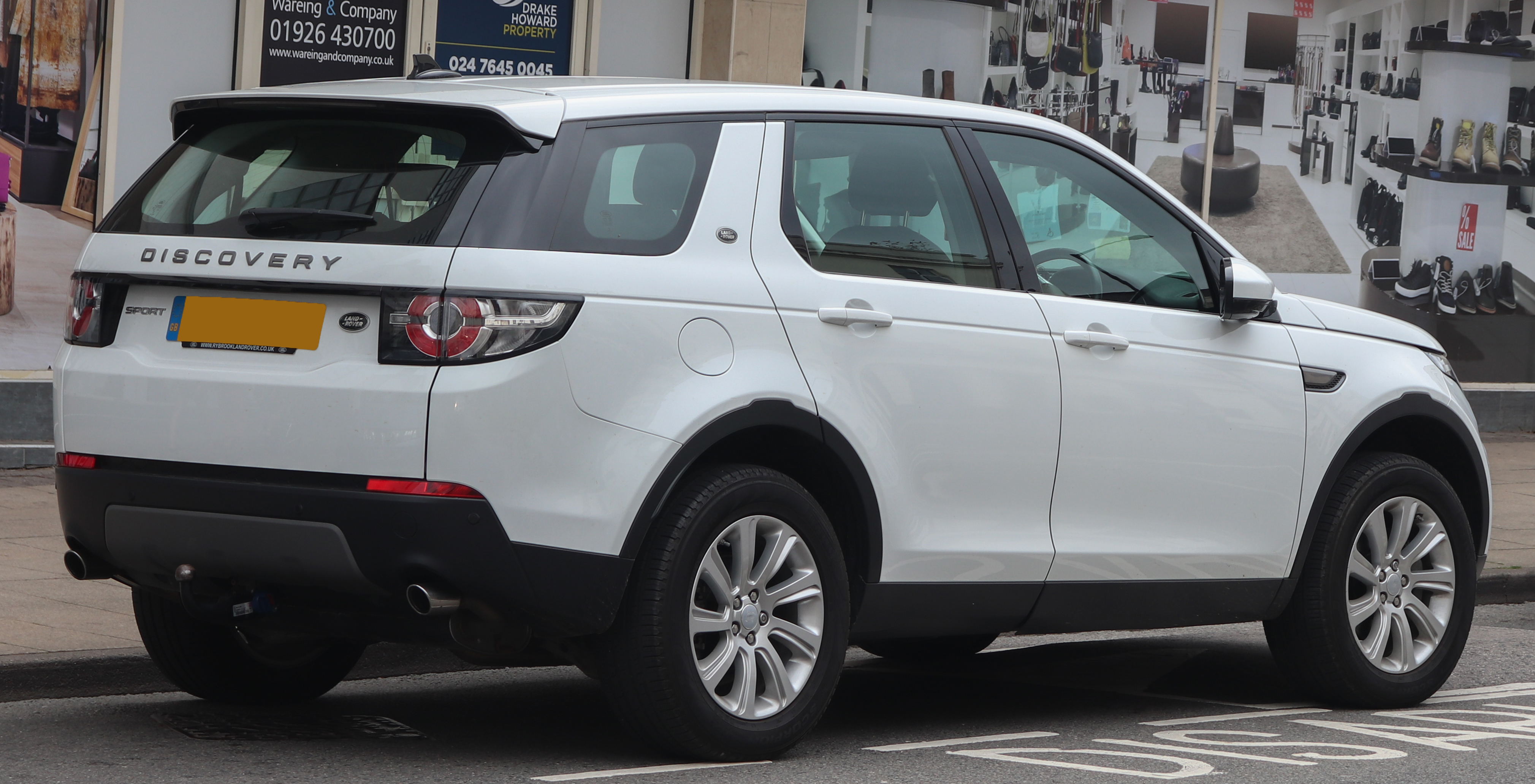 2016 Land Rover Discovery Sport SE Tech T 2.0 Rear Taken in Leamington Spa